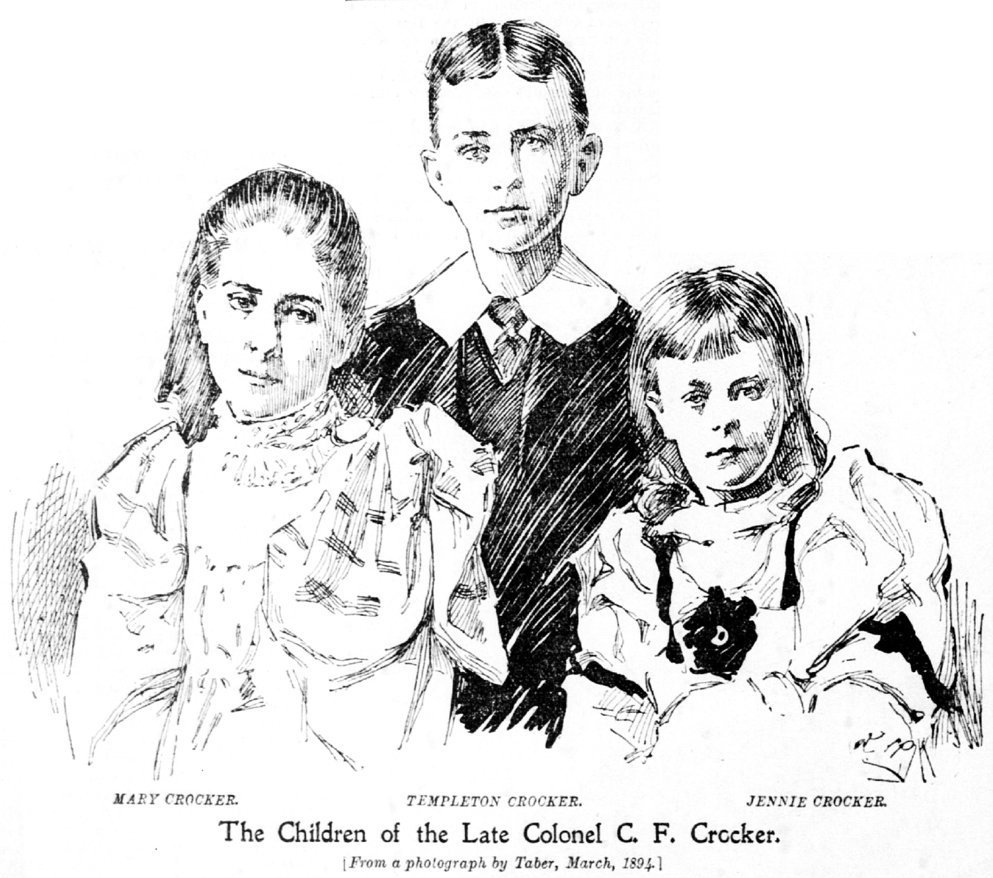 The Children of the Late Colonel [Charles Frederick] Crocker. L-R: Mary, [Charles] Templeton, Jennie